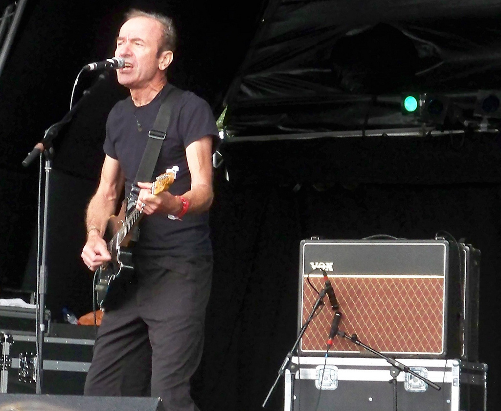 A shot of Hugh Cornwell playing live at Guilfest 2011.